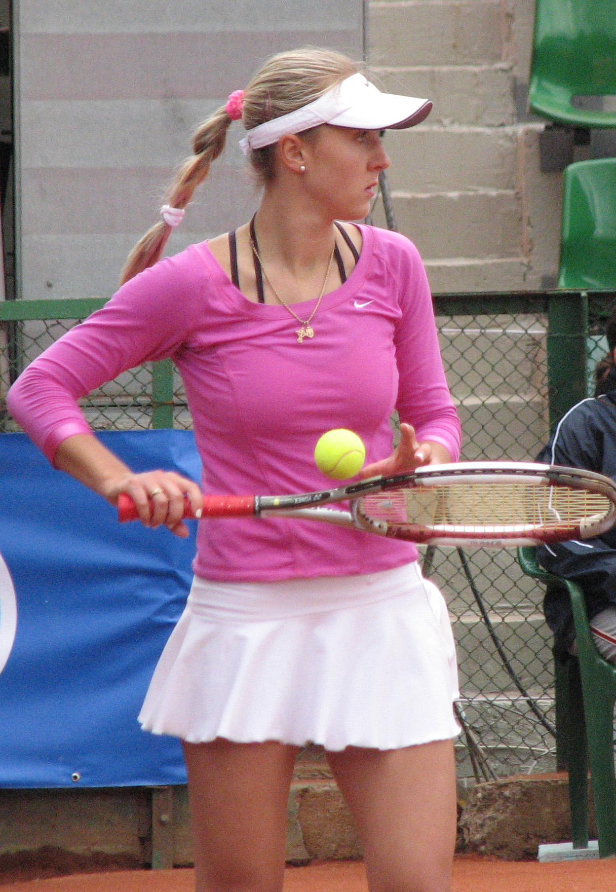 Viktoria Kutuzova (Allianz Cup 2008)